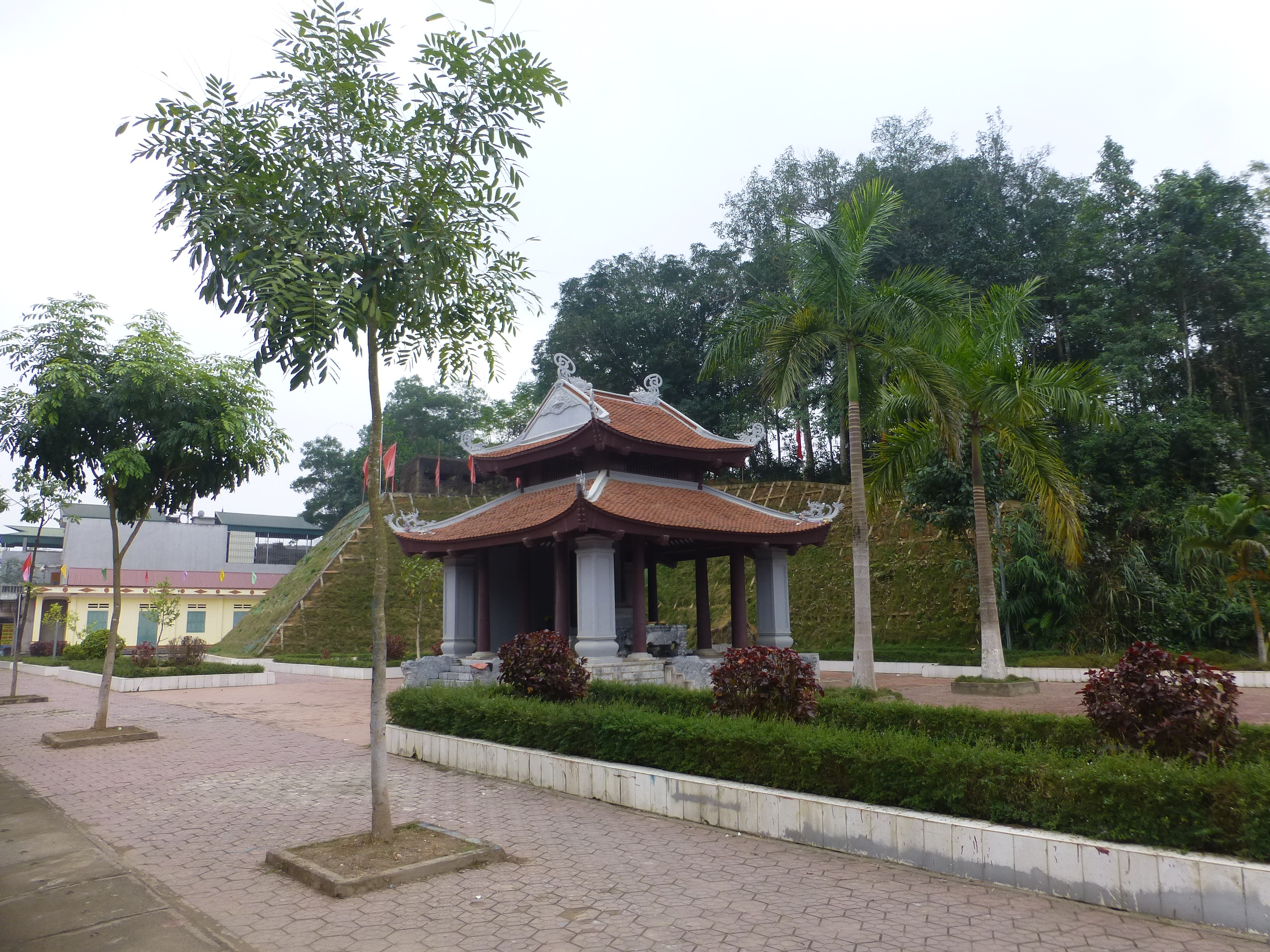 A monument in a small park in Pho Lu Town, Bao Thang District, Lao Cai Province, Vietnam.